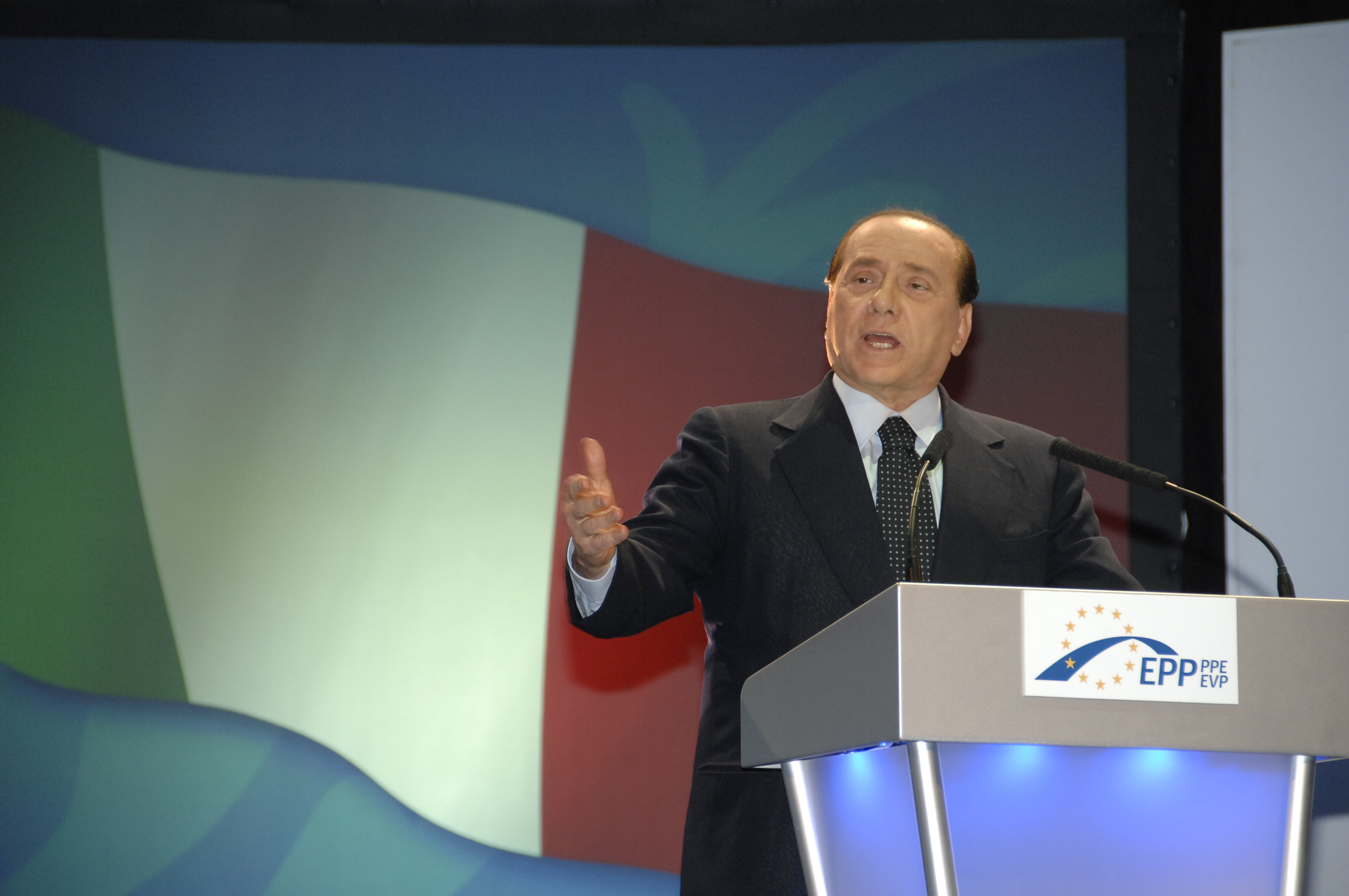 EPP Congress Warsaw